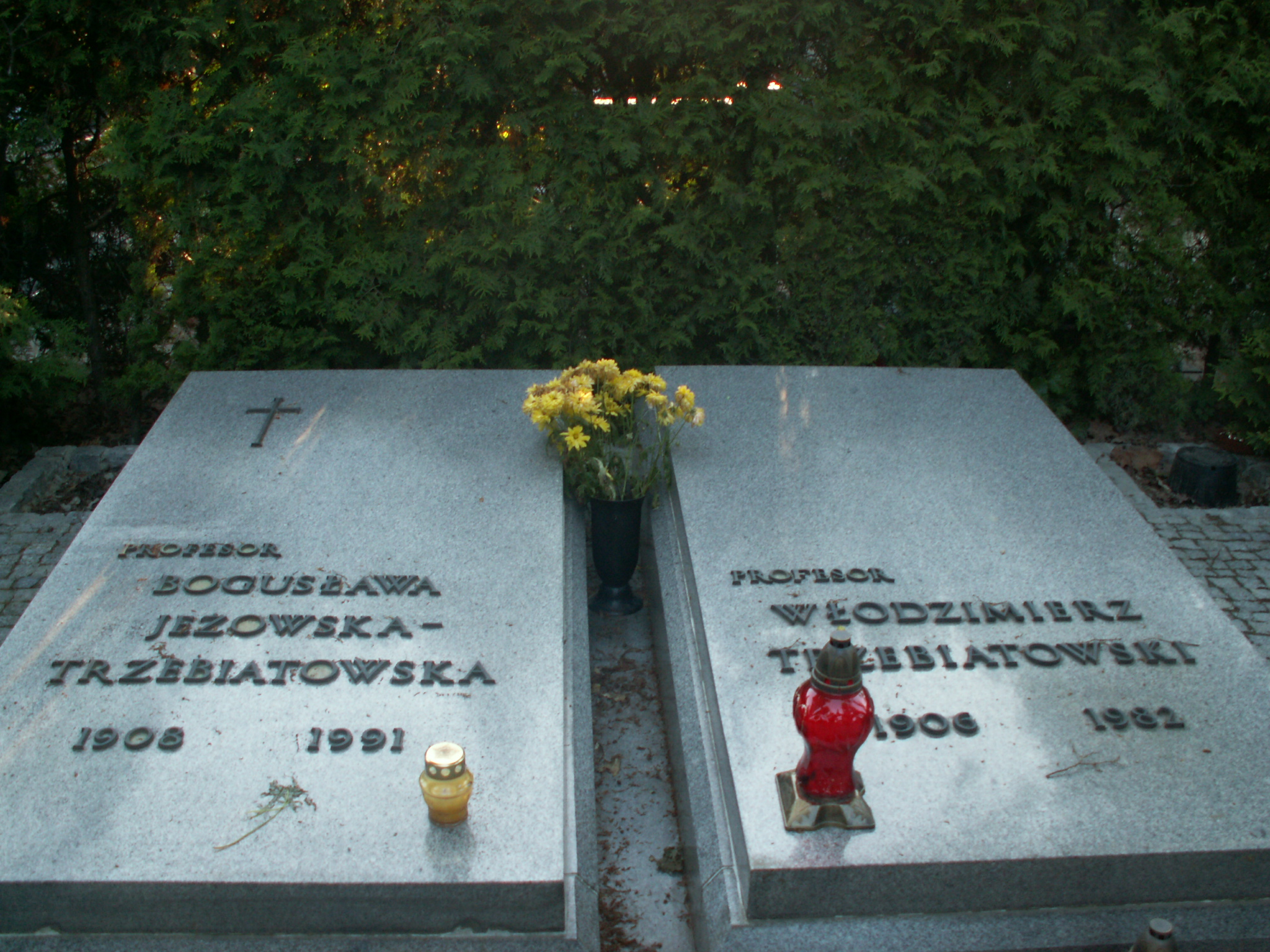 Nagrobek chemika prof. Włodzimierza Trzebiatowskiego i jego żony prof. Bogusławy Jeżowskiej-Trzebiatowskiej. /Wrocław Cmentarz Osobowicki.